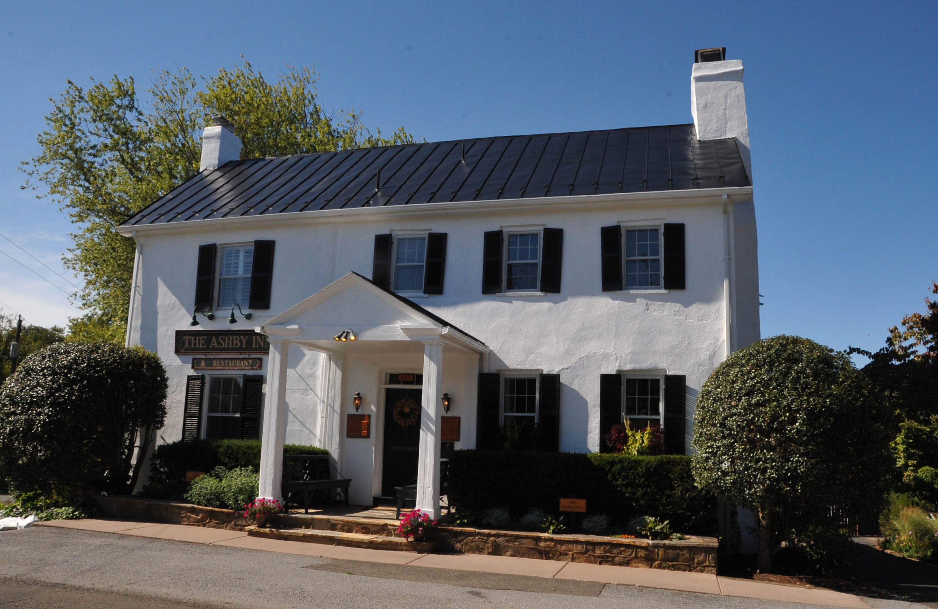 ASHBY INN, CIRCA 1830 FEDERAL; STILL ACTIVE AS AN INN AND RESTAURANT